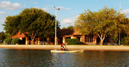 The Angelo State University Lakehouse